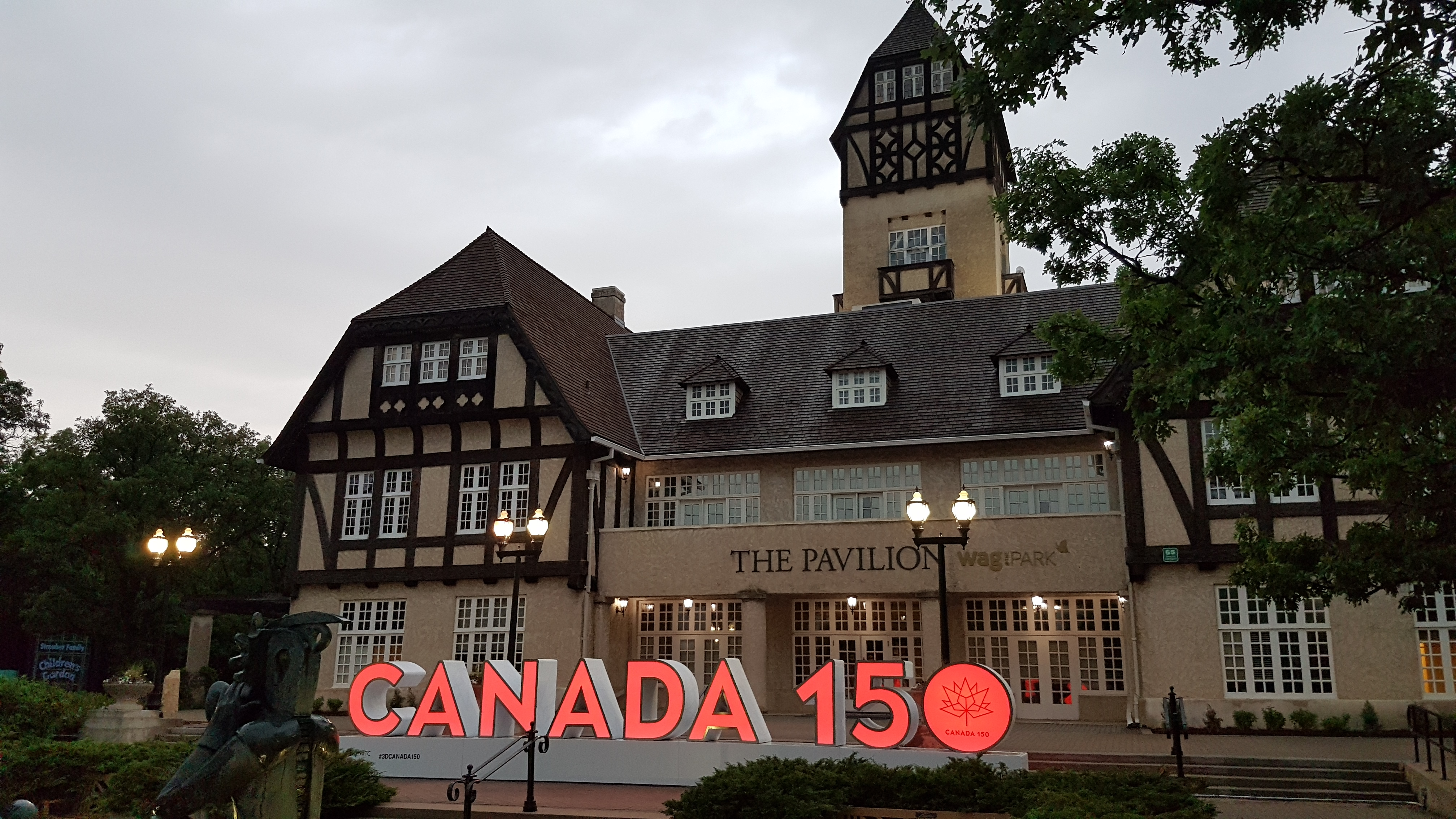 Pavillion building, Canada Day decoration